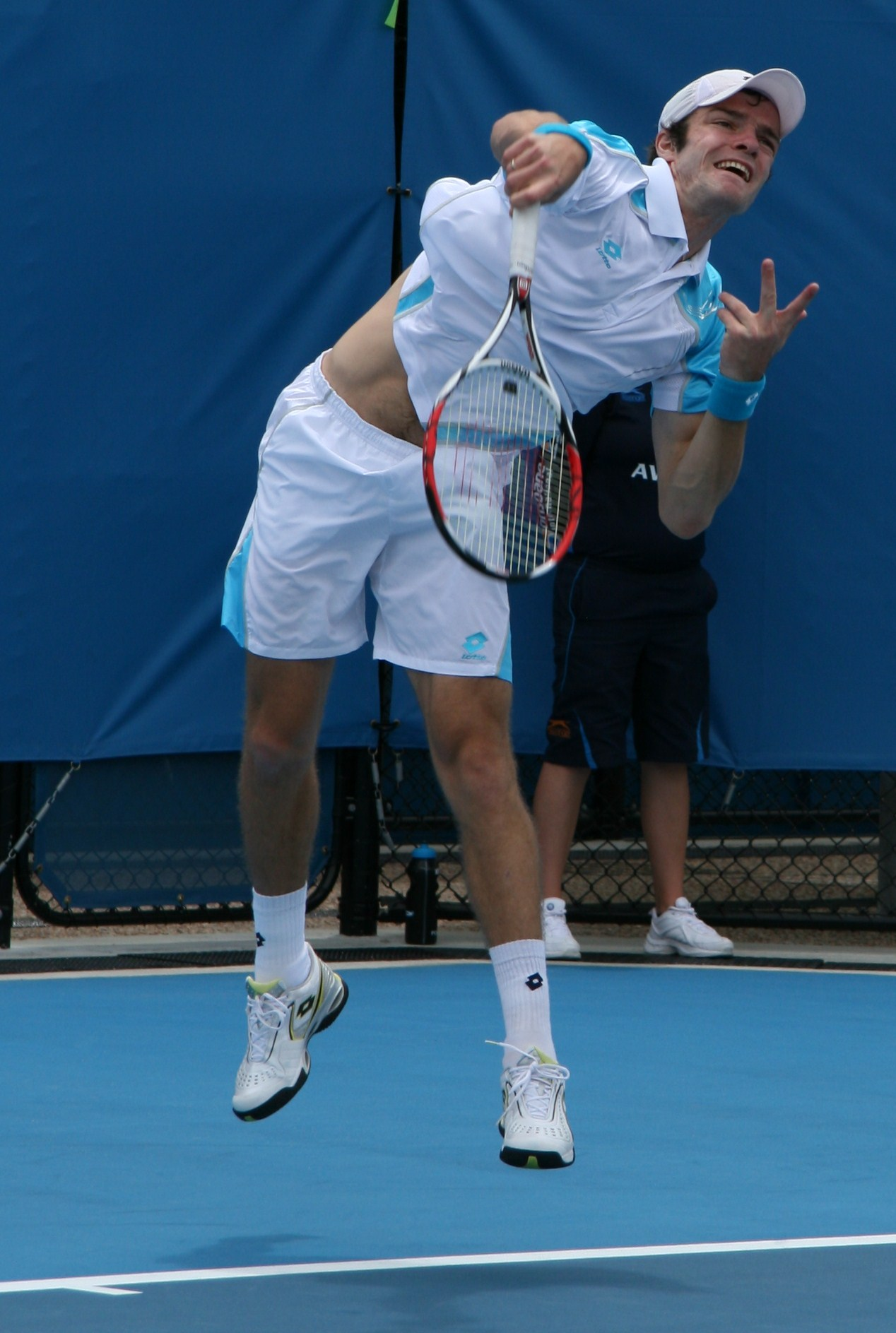 Serving in Brisbane